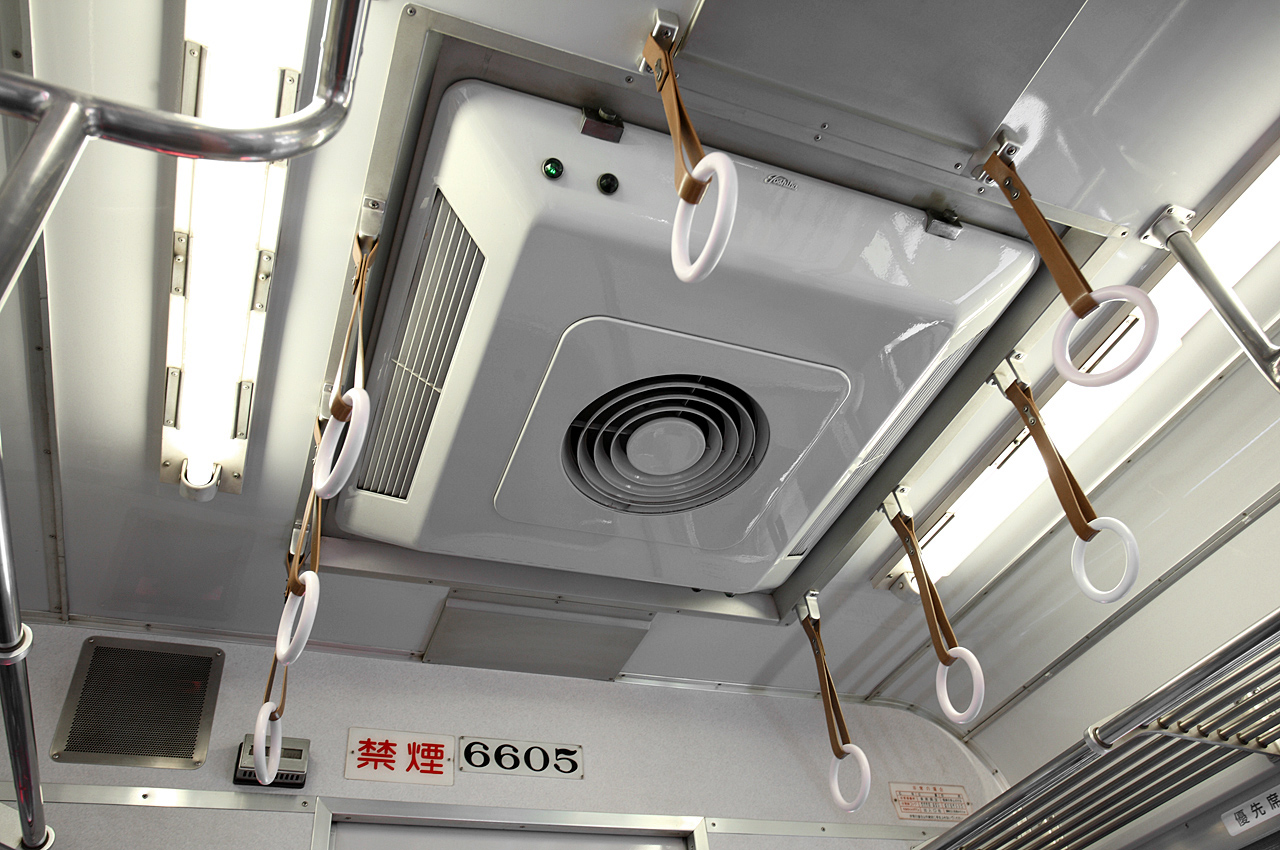 Air conditioner of Meitetsu 6600 series EMU